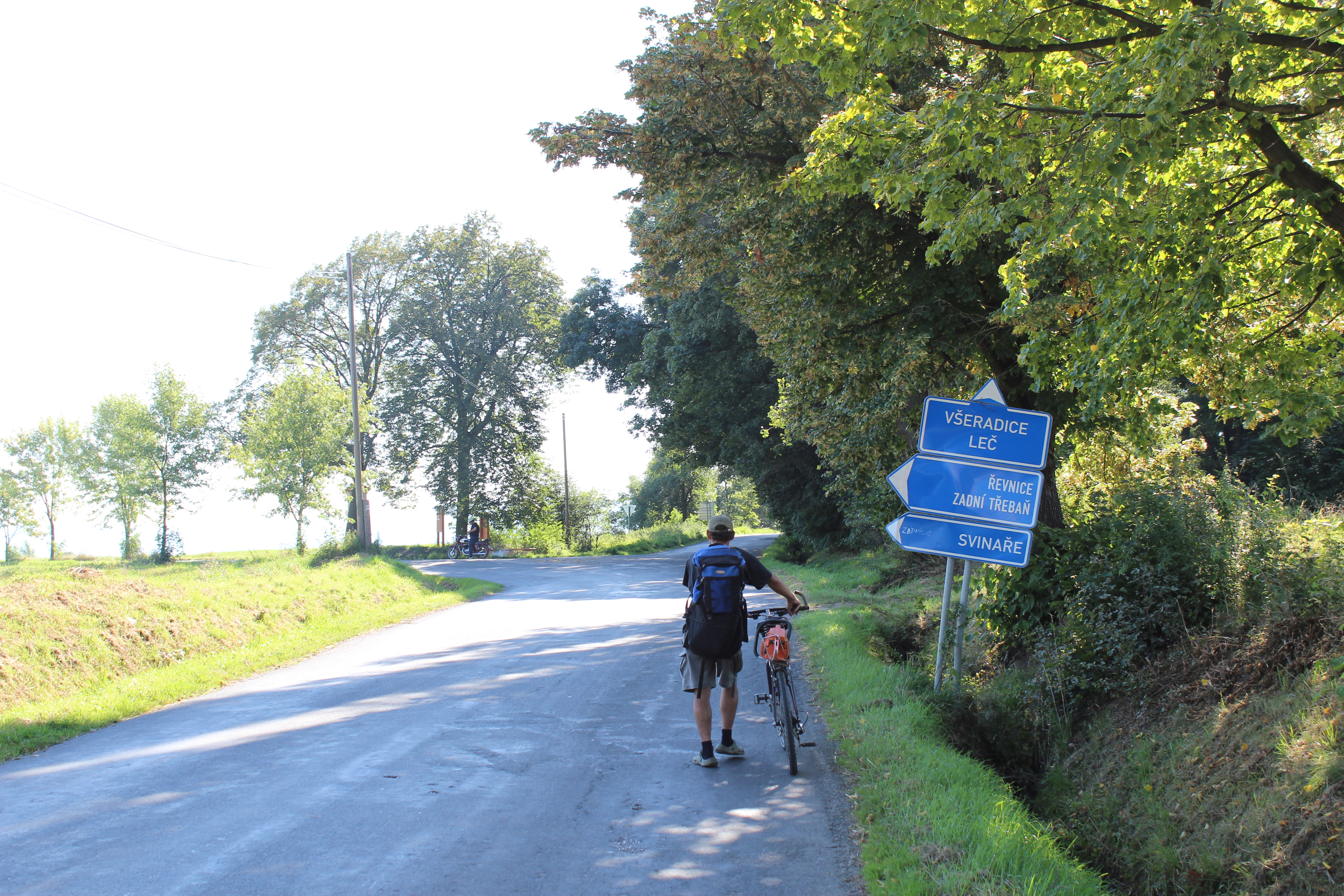 Wayside shrines in Liteň.Cyclists in Liteň